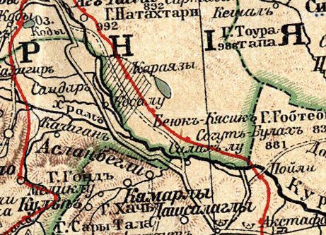 Фрагмент карты Елизаветпольской губернии